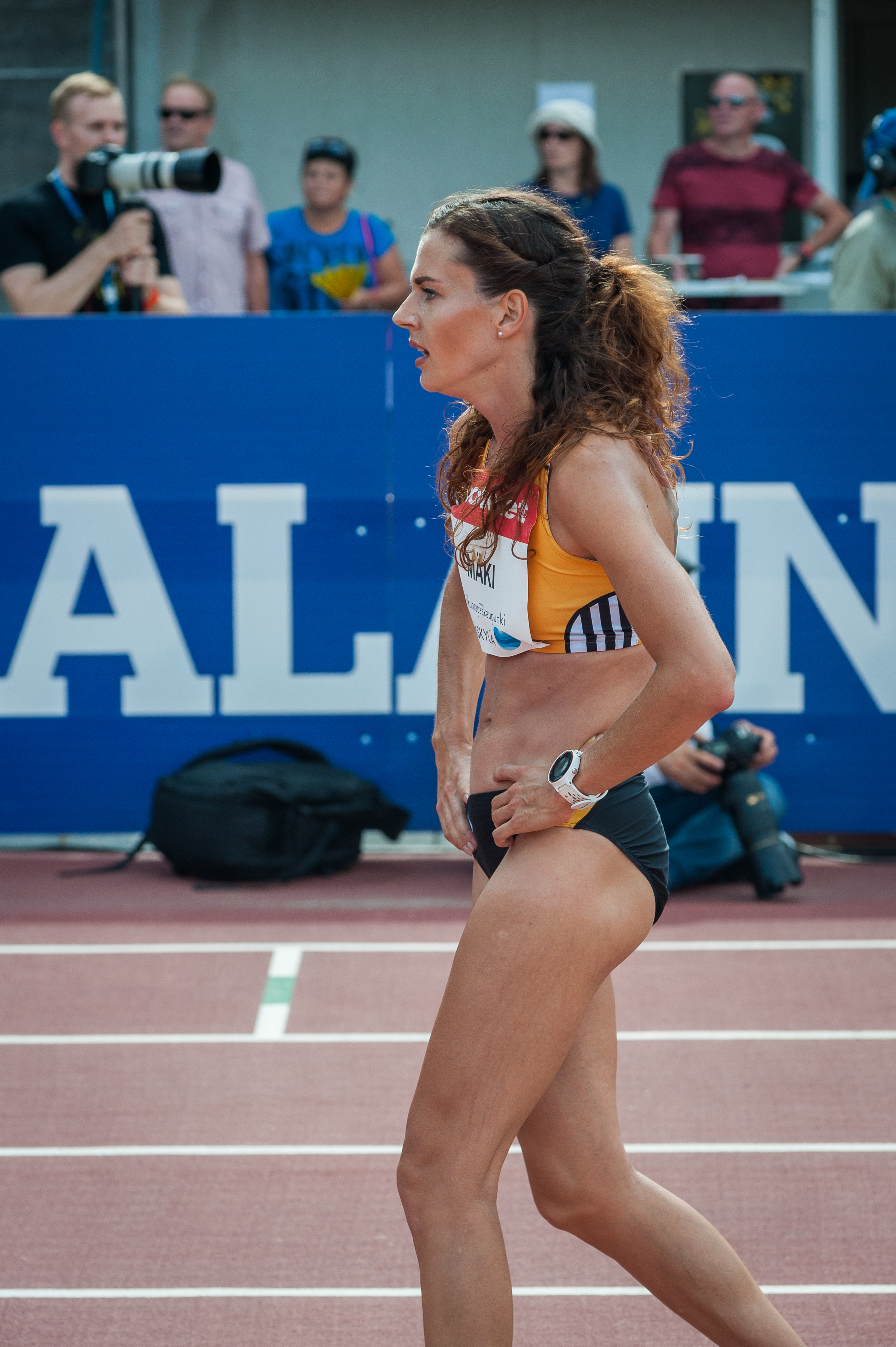 Women's 5000 m competition at the 2018 Kalevan Kisat, the Finnish championships in athletics, in Jyväskylä, Finland.